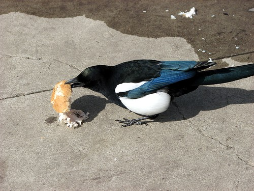 Black-billed Magpie (Pica hudsonia). Magpie Recycling at the Royal Tyrrell Museum of Antropology, Drumheller AB.